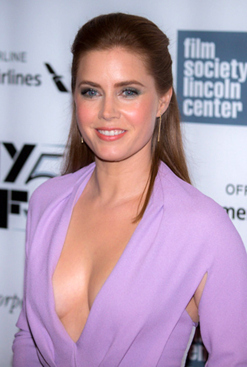 Amy Adams at the premiere of the film Her at the 51st New York Film Festival at Lincoln Center, on 12 October 2013.